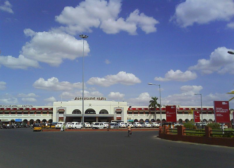 Trichy junction front view